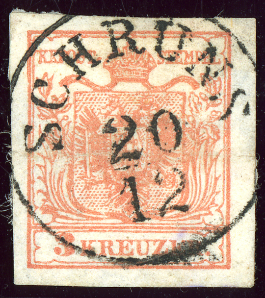 Austrian KK 3 kreuzer stamp, issue 1850, Ferchenbauer type Ia, cancelled at SCHRUNS, Vorarlberg, Austria. Müller postmark: 2566a type RS-f (60)